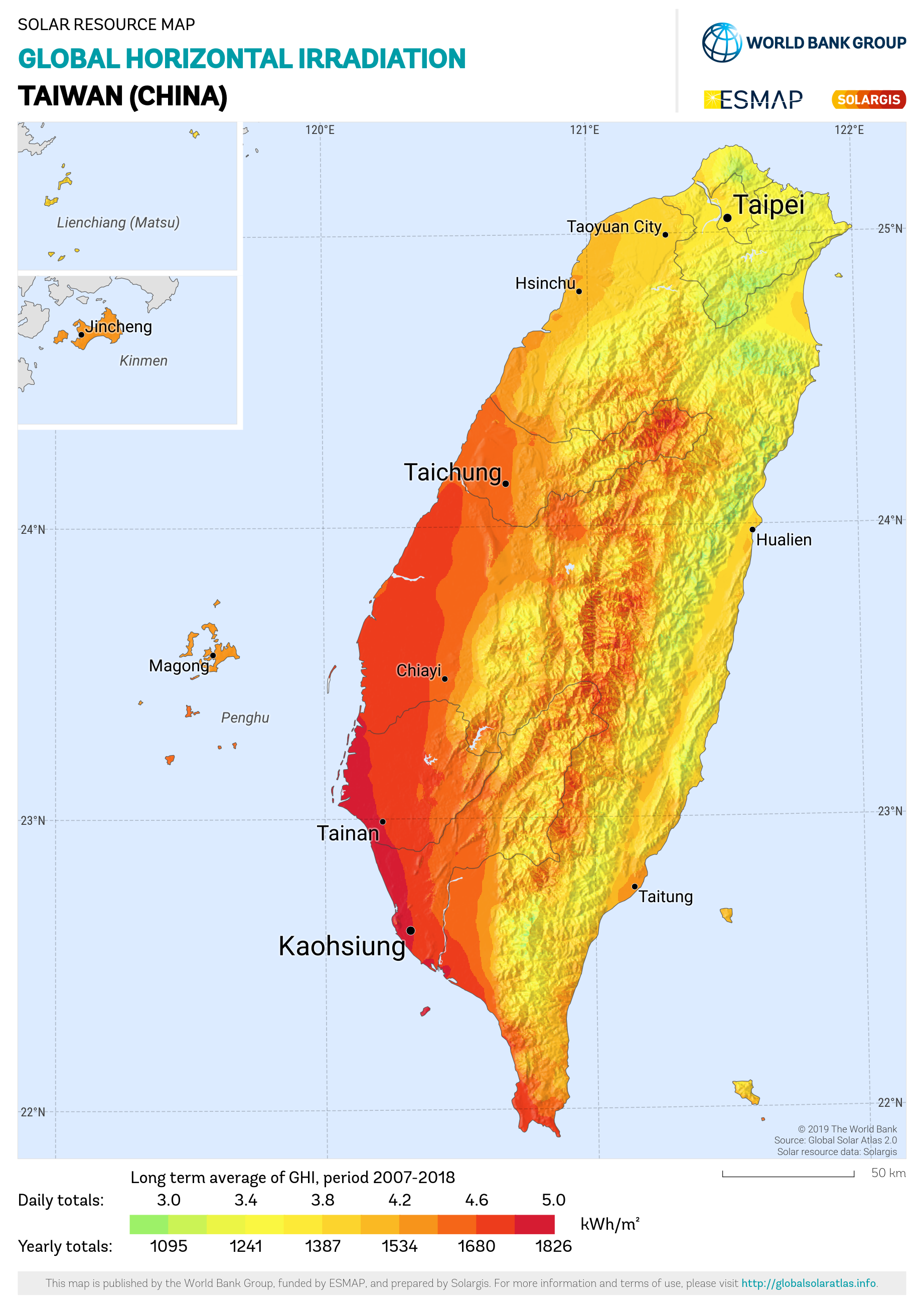 Global Horizontal Irradiation of Taiwan (Republic of China)